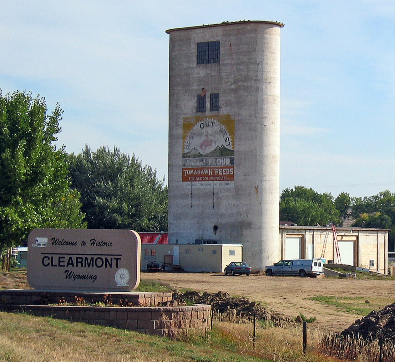 Clearmont, Wyoming grain elevator in 2007